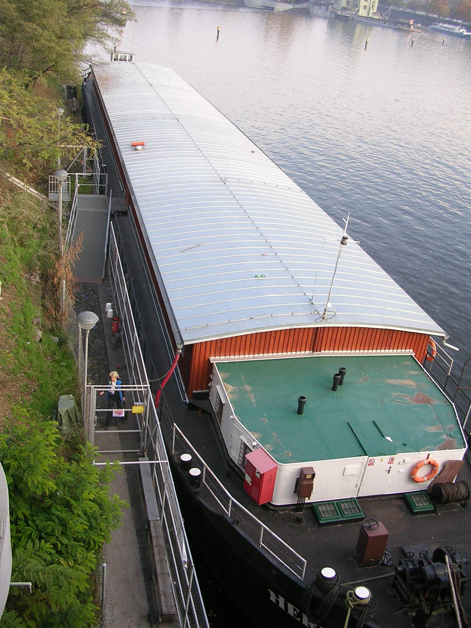 Holešovice, Prague. Bostel Hermes.